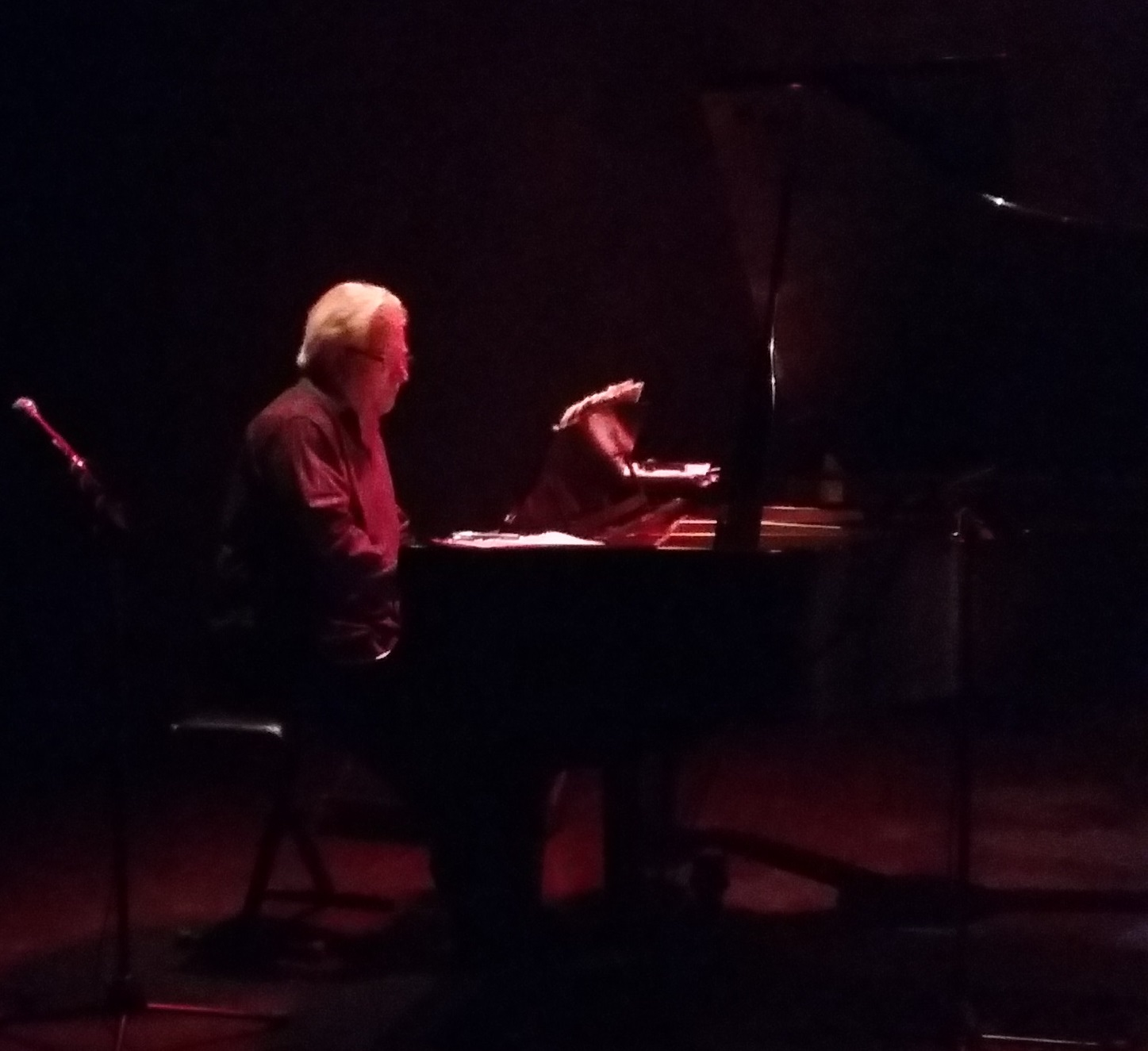 José María Gianelli photographed in Montreal, Quebec, Canada in the cultural centre of the borough Montréal-Nord.